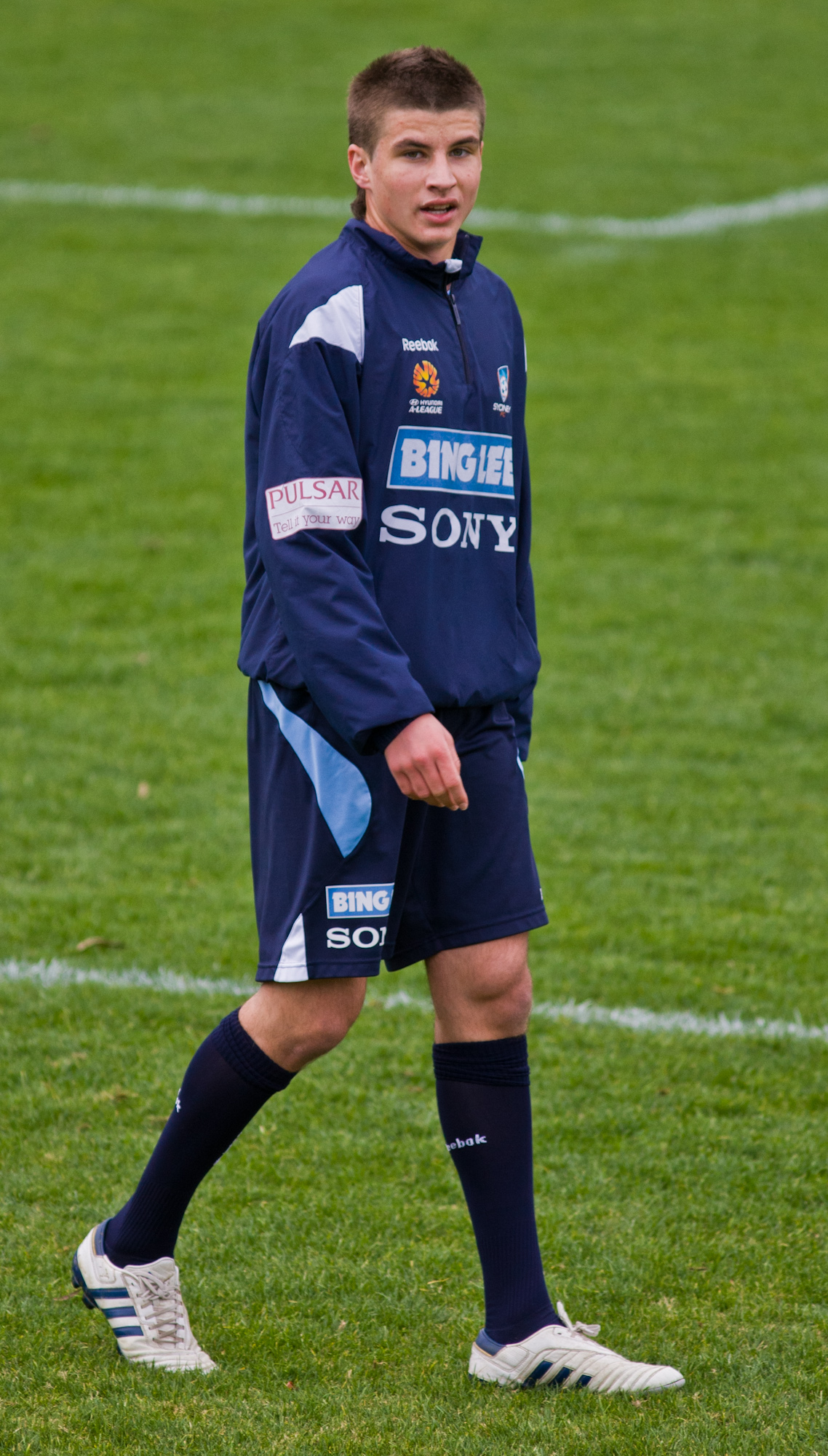 Terry Antonis at a Sydney FC training session.